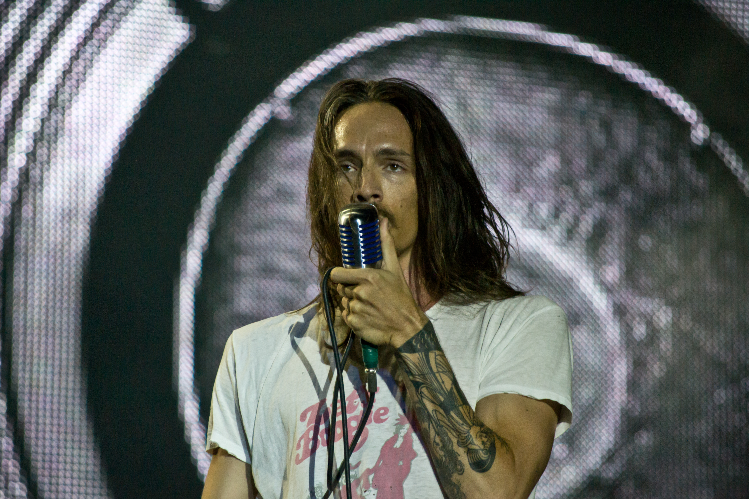 Incubus in Rock in Rio Madrid 2012.